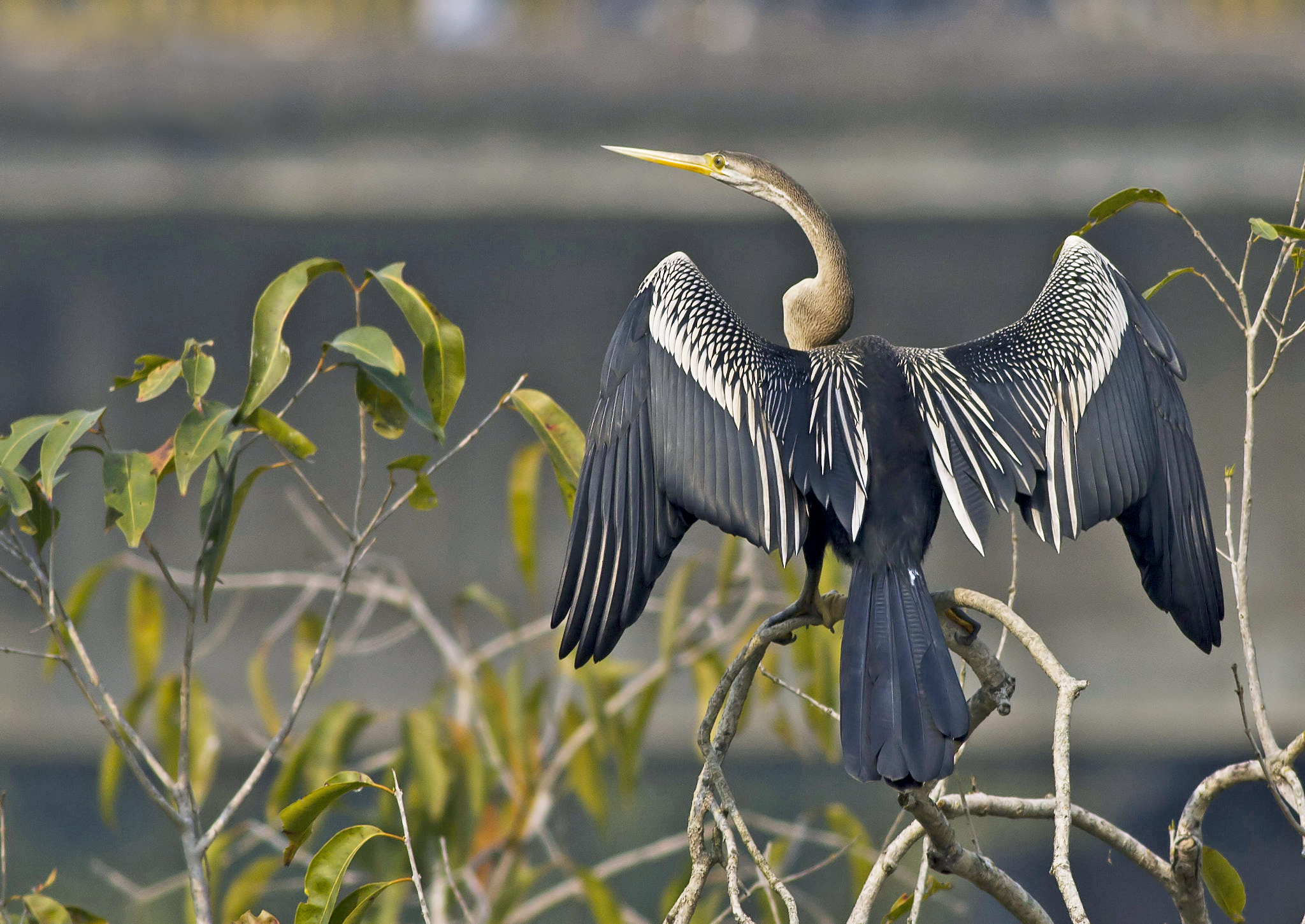 500px provided description: 11793909193 Jpg [#lion ,#owl ,#tiger ,#rhinoceros ,#exotic birds ,#indian birds ,#Indian wildlife ,#india wildlife]